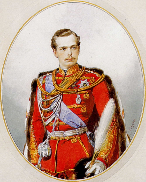 Alexander III of Russia (1845-1894)